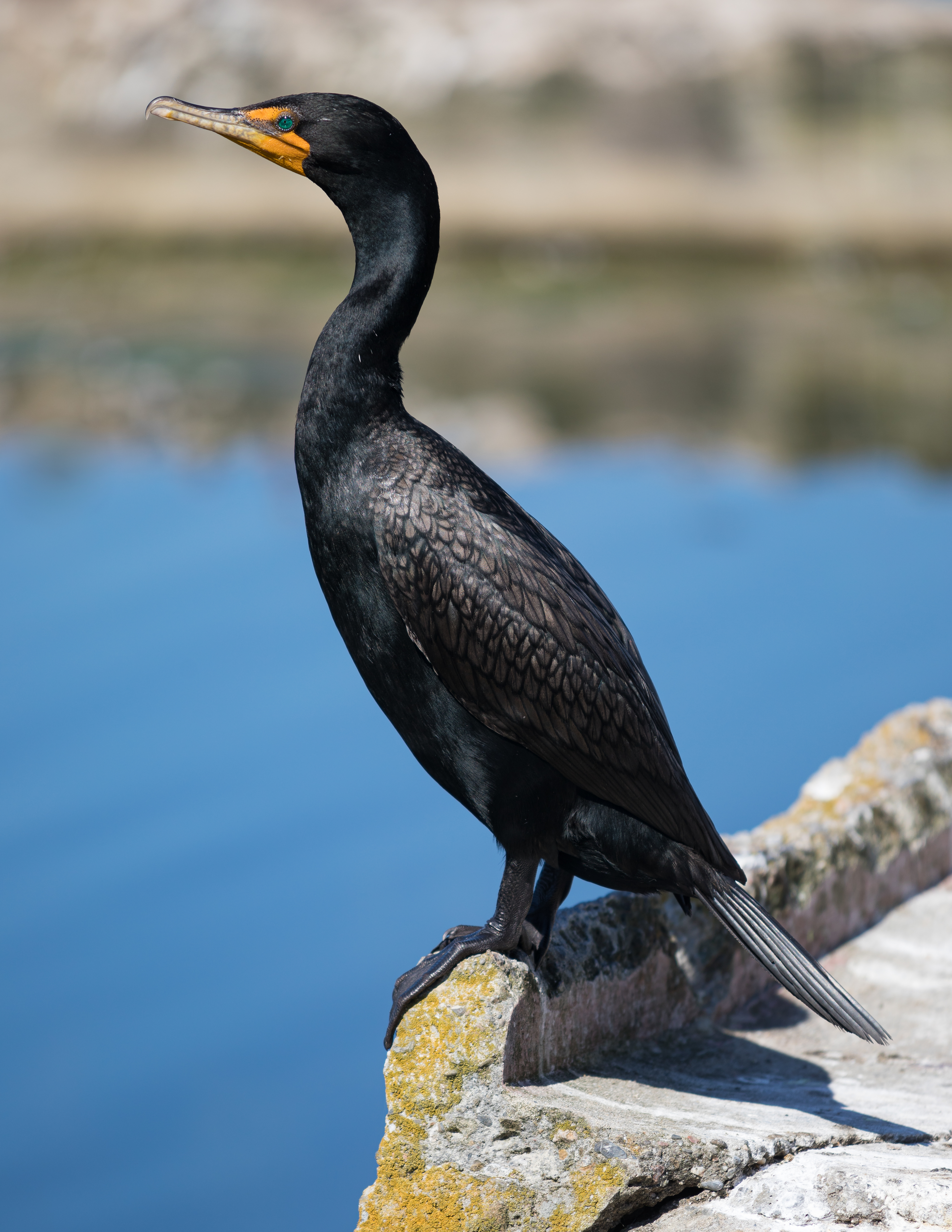 Adult non-breeding double-crested cormorant (Phalacrocorax auritus albociliatus) at Sutro Baths, San Francisco, California